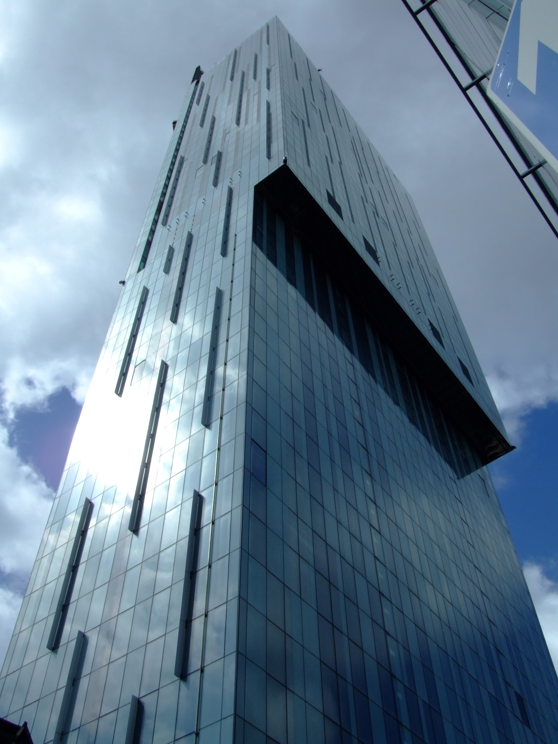 Source - Iain Dickinson. Camera - Fujifilm Finepix Z1. Aperature - F8. Speed - 1/400. ISO - 64. Owner of Image - Iain Dickinson